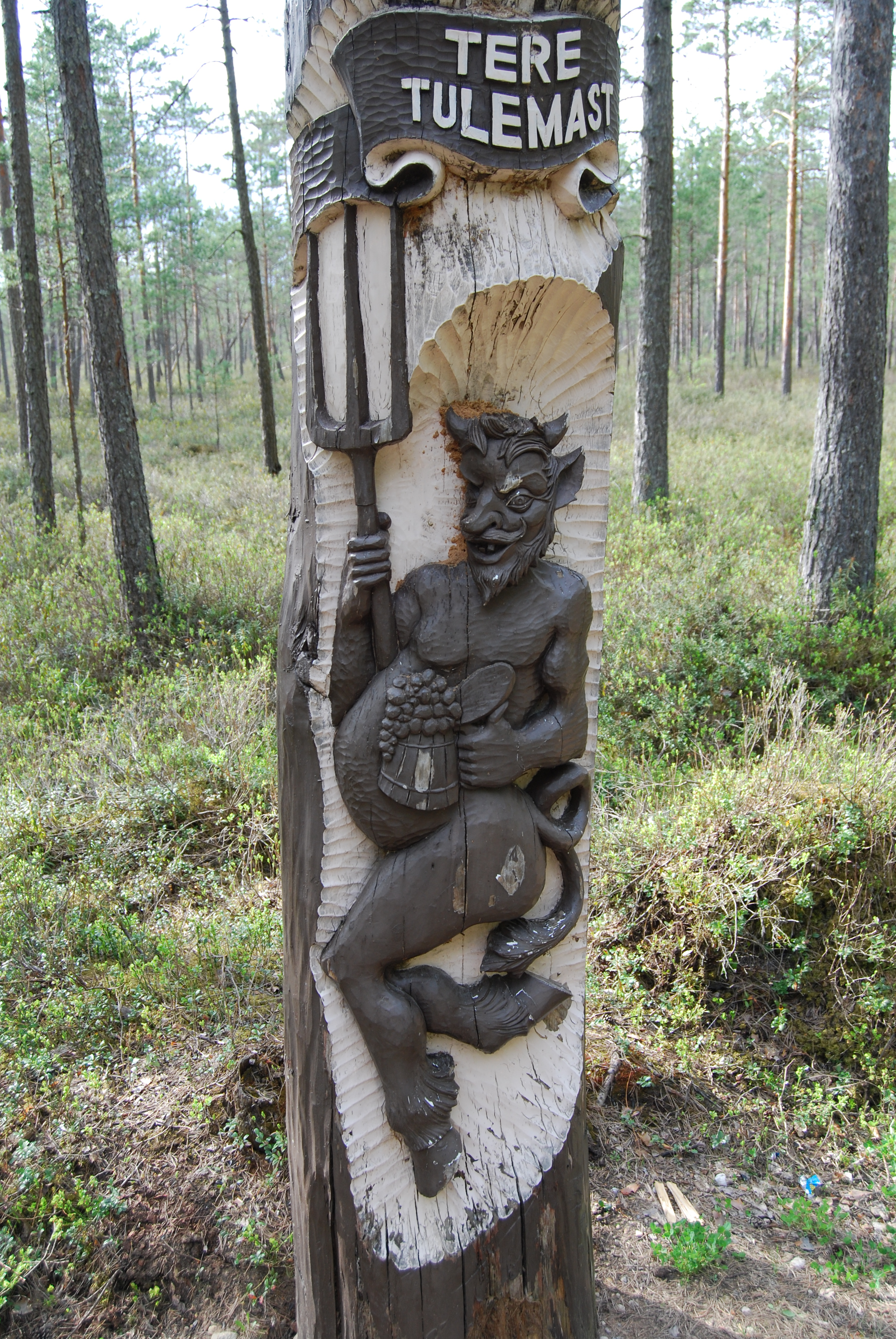 Devil at Ilumetsa crater path, Estonia